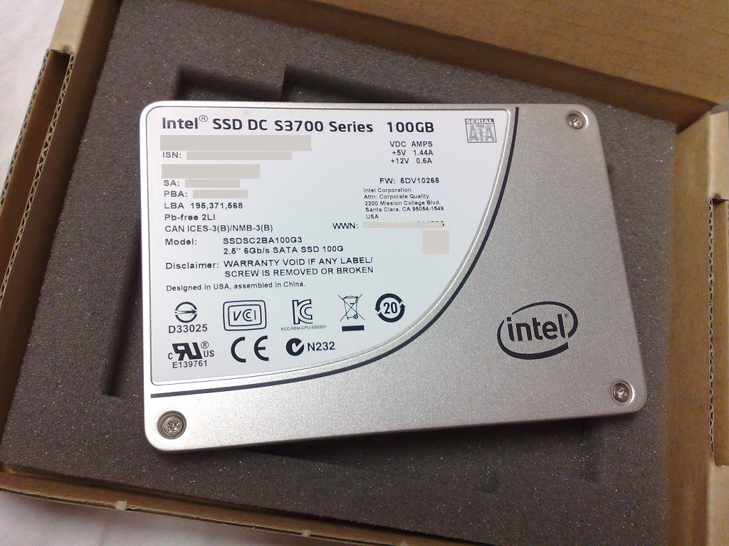 Top view of a 2.5-inch 100 GB SATA 3.0 (6 Gbit/s) model of the Intel enterprise flash drive DC S3700 series, in its original packaging (Intel p/n: SSDSC2BA100G301)